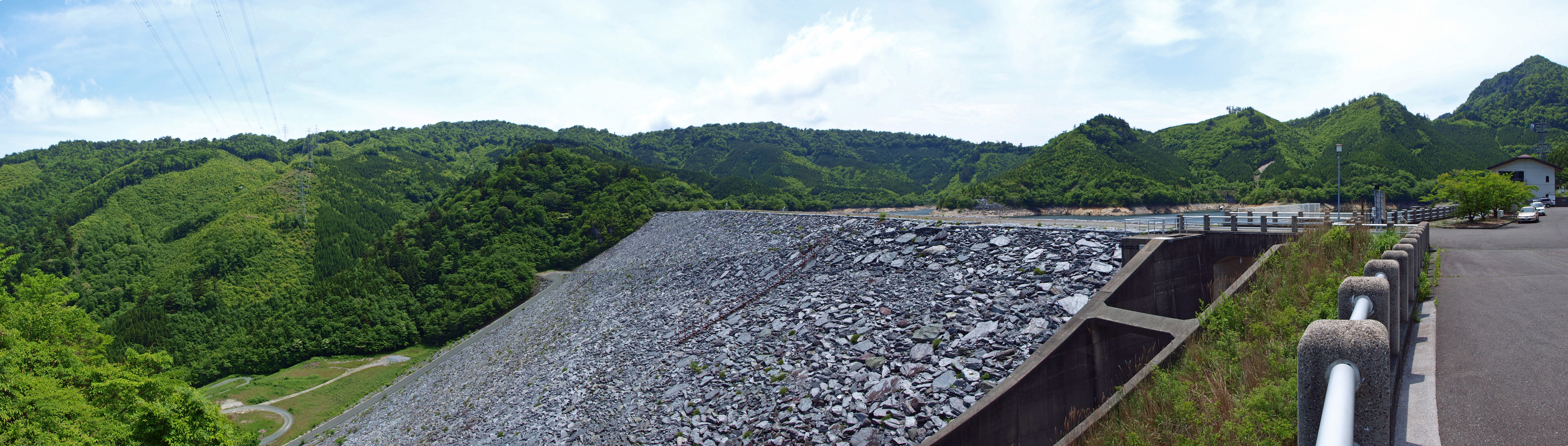 Inamura dam(Seto river/Kochi pref./Japan) Panoramic